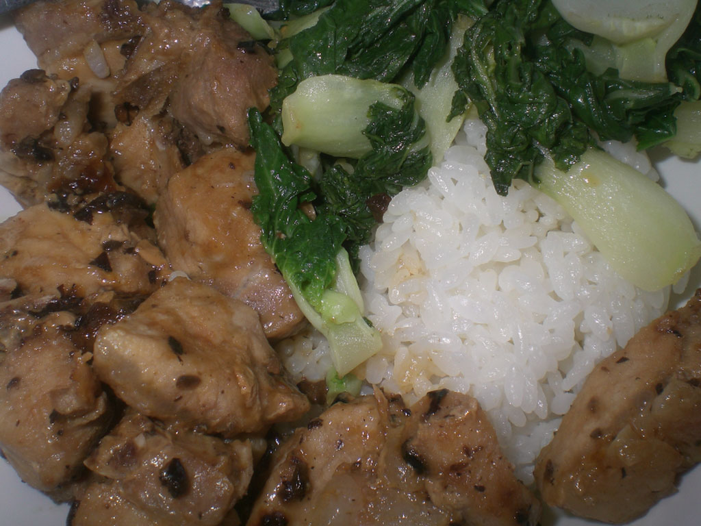 豉汁zh:排骨飯